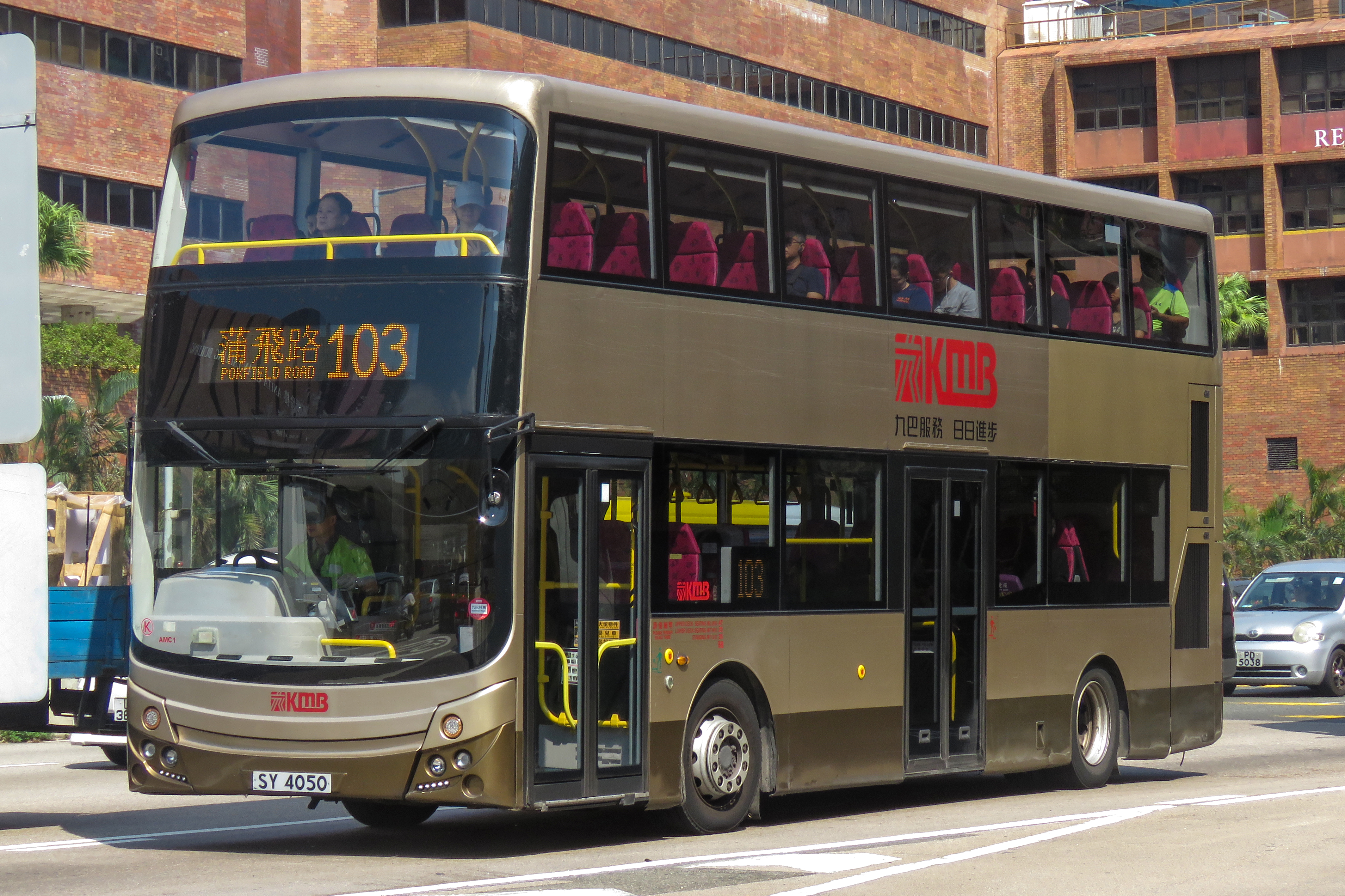 Here comes the rare species!